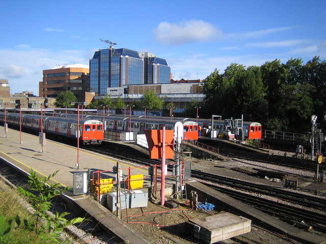 Harrow-on-the-Hill Underground Station Busy morning rush hour times at the eastern end of Harrow-on-the-Hill Underground Station with three Metropolitan Line trains about to depart from the platforms, viewed from Station Approach.